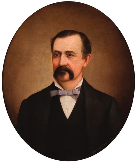 Portrait of Kentucky songwriter William Shakespeare Hays (1837-1907)